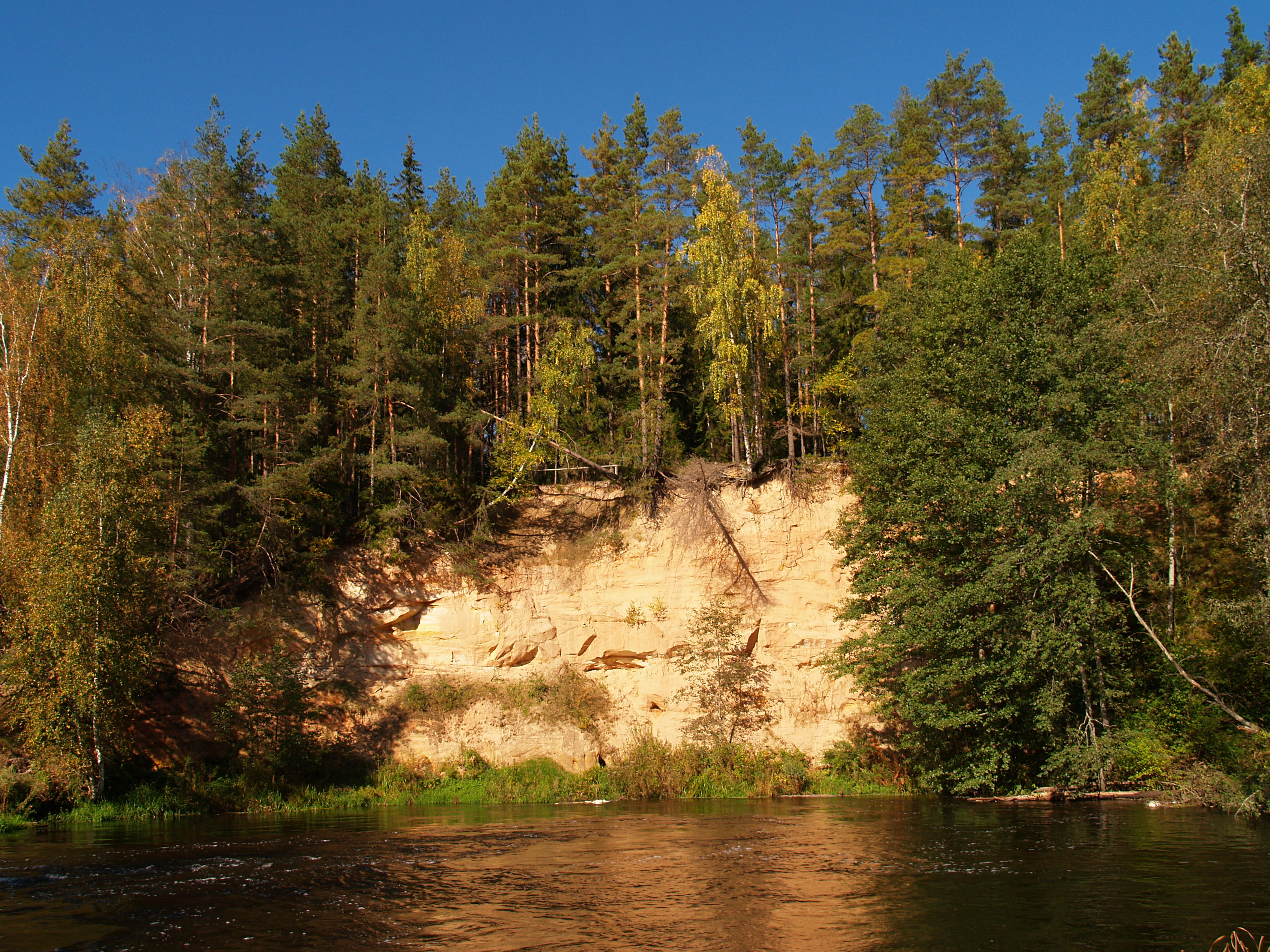 Viira veskimüür in Põlva County, Estonia. This sandstone cliff is situated next to Võhandu river and rises up to 16.5 m in high.